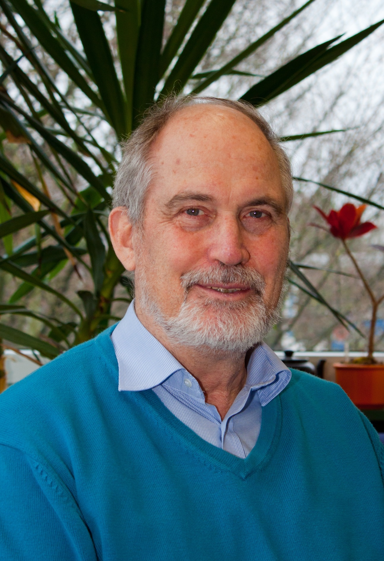 Eberhard Hilf